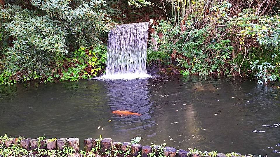 Waterfall in Senba Park. Mito ,Ibaraki. Water flows to Lake Senba.